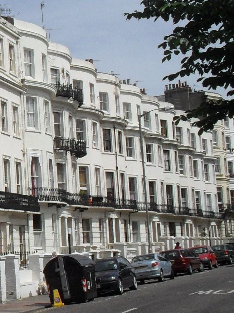 7–16 Vernon Terrace, Montpelier, City of Brighton and Hove, England. Listed at Grade II by English Heritage (NHLE Code 1381071)